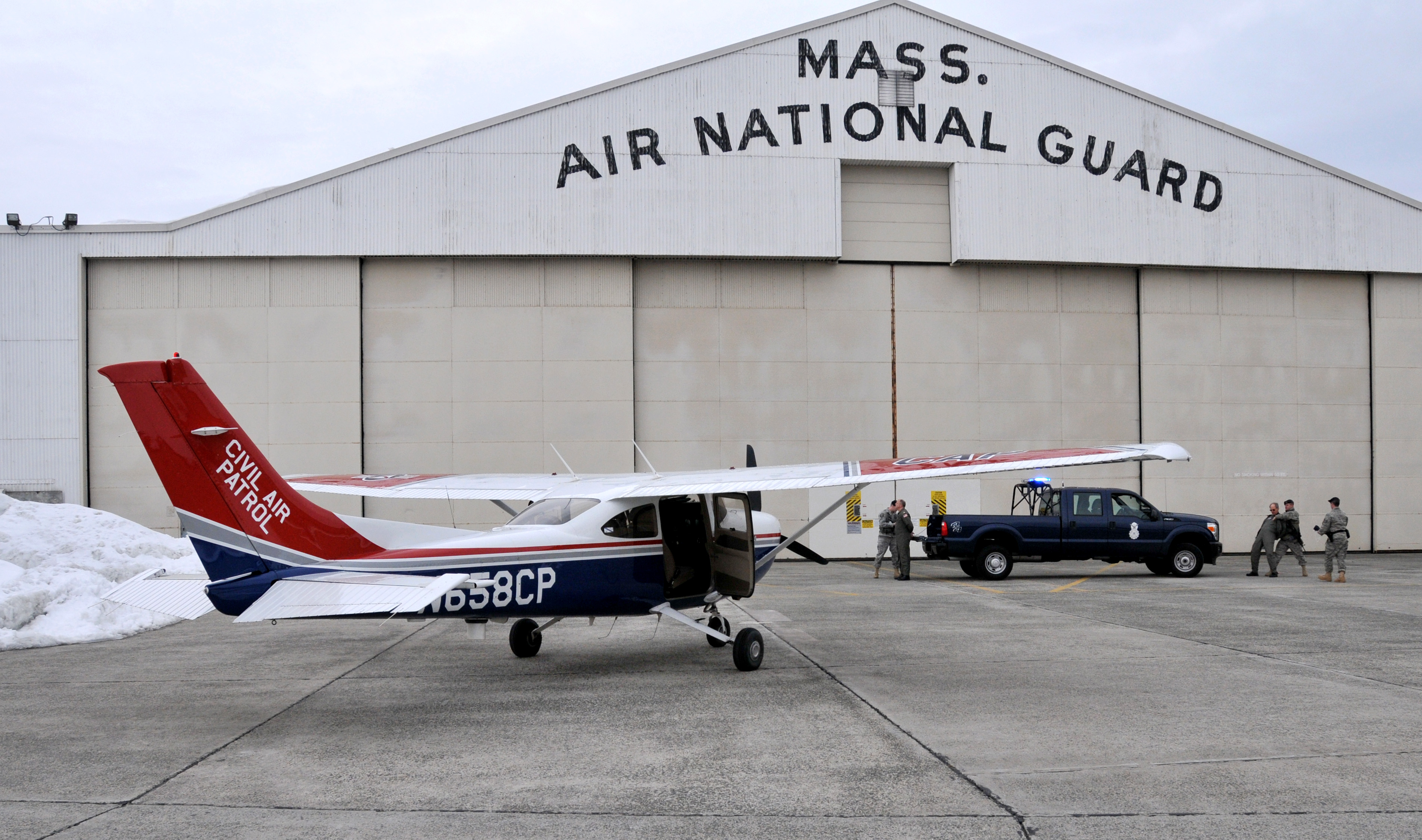 Security Forces from Barnes Air National Guard Base in Massachusetts “apprehend” the crewmembers of a Civil Air Patrol aircraft during an intercept training mission. Civil Air Patrol helps Aerospace Control Alert units train for scrambles and intercepts by providing a track of interest. (U.S.A.F. Photograph by, Master Sgt. Mark W Fortin)